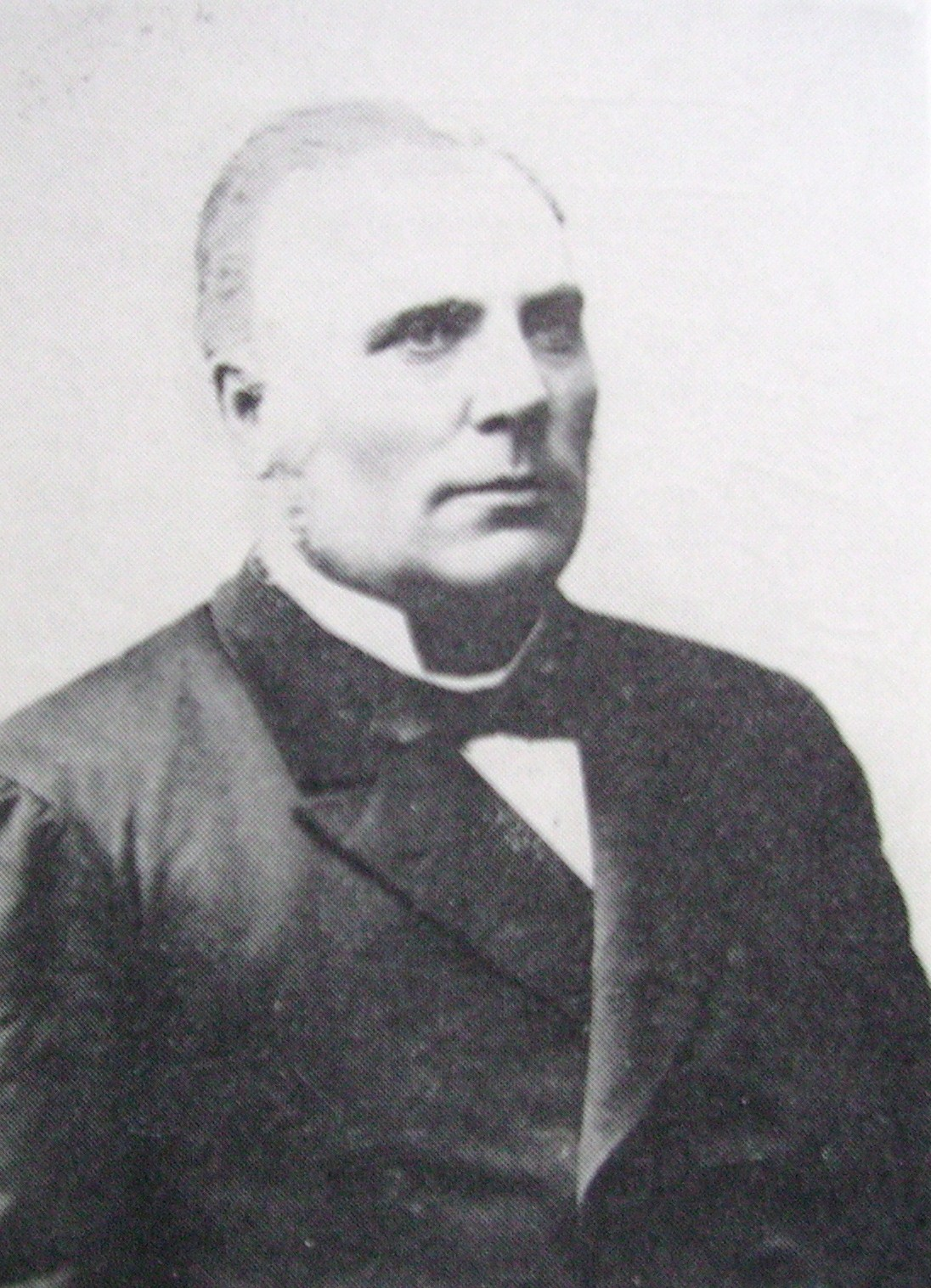 Picture of E. Jakob Ekman, Swedish pastor